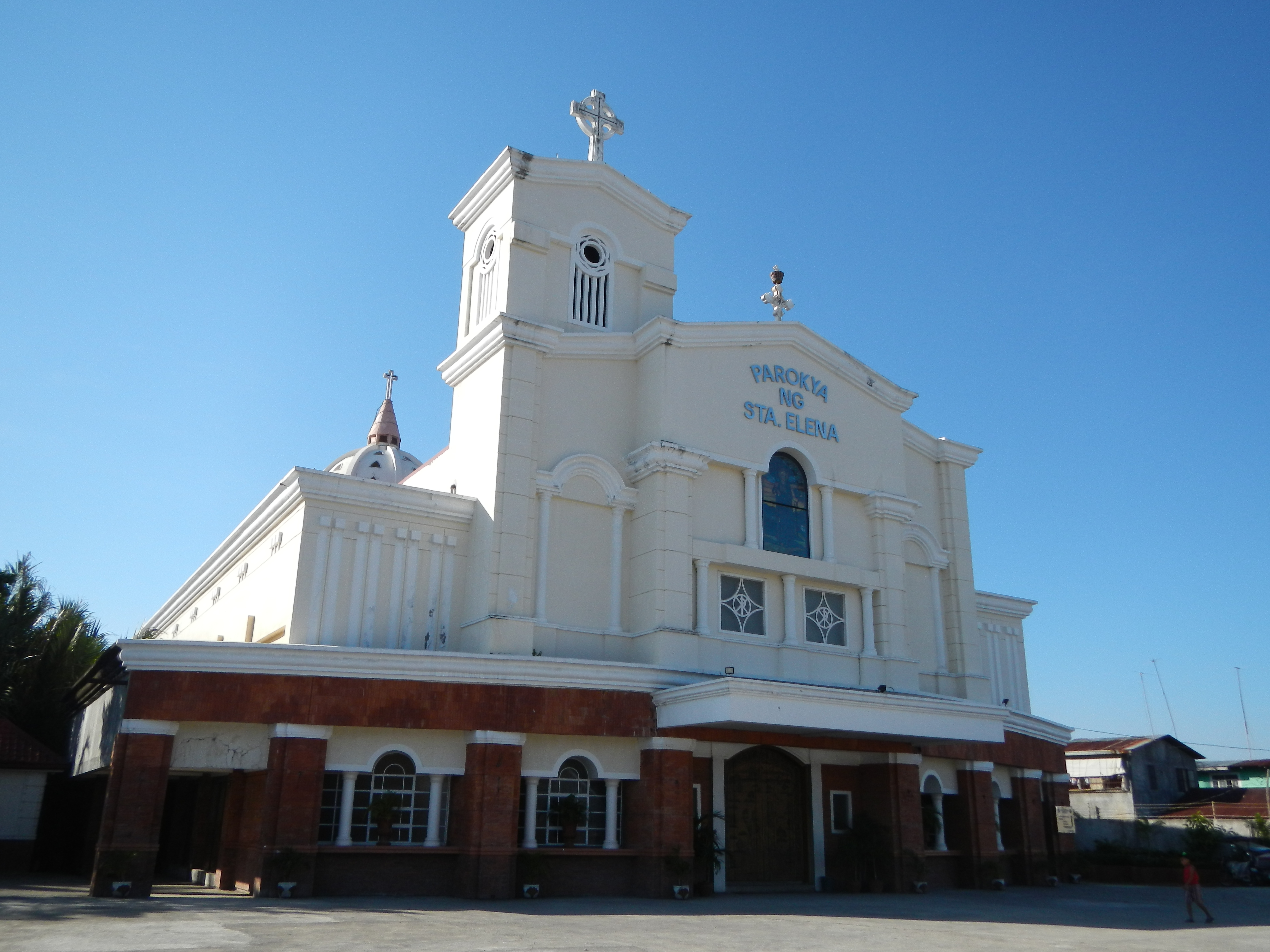 Heritage Saint Helen, the Empress Parish Church [1] (Feast Day: May 4 Parish Priest: Father Edmar A. Estrella Parokya ni Sta. Elena de Emperatriz Titular is Helena (empress) Helena of Constantinople; including the Statue of Saint Helena of Constantinople in the side Altar, Roman Catholic Diocese of Malolos Vicariate of St. Anne Hagonoy, Bulacan Barangay Santa Elena, Hagonoy, Bulacan - other landmarks are its Barangay Hall beside the Ramona S. Trillana High School and Santa Elena Elementary School).